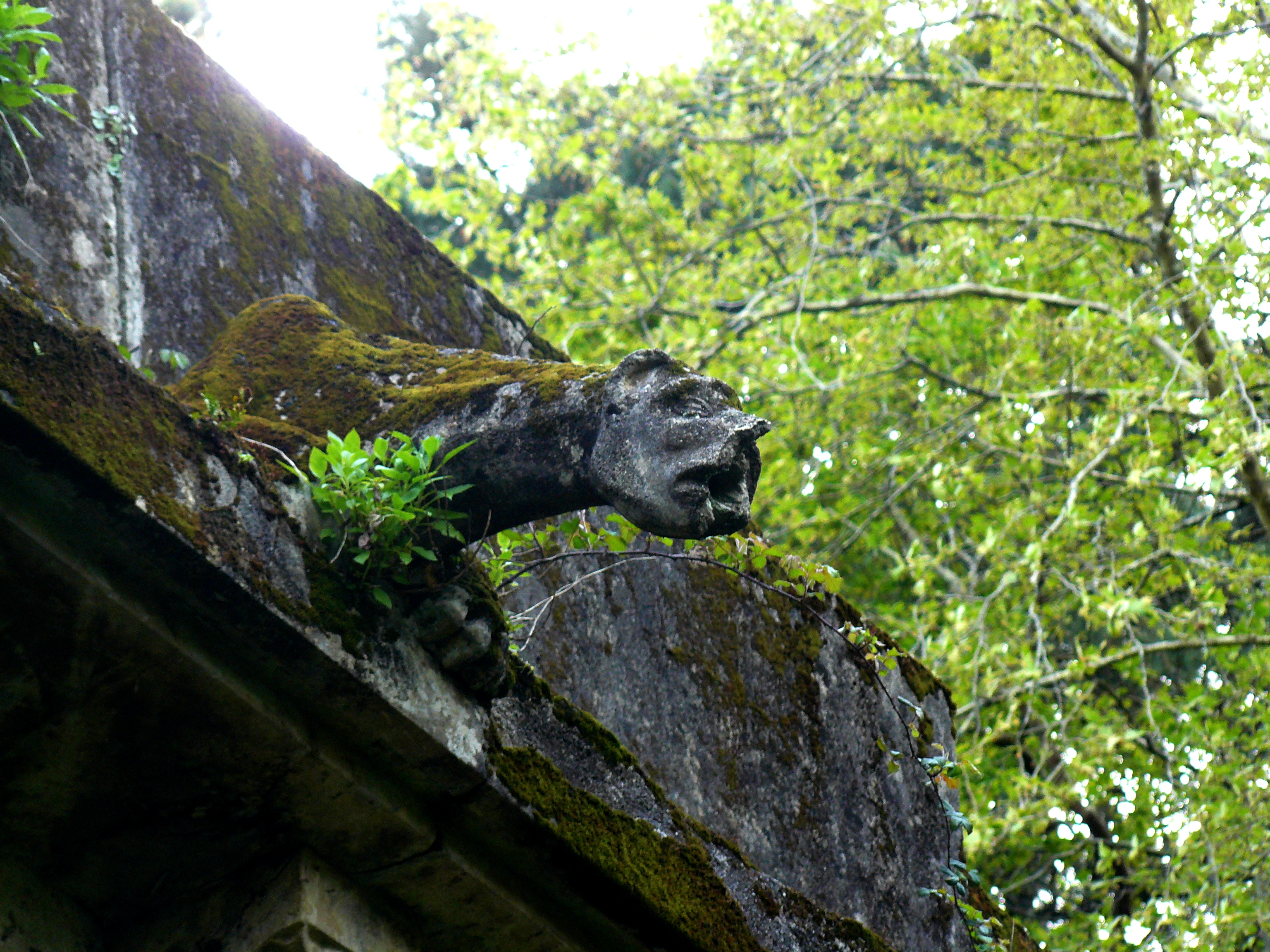 Gargoyle at Pazo do Espiño, in Santiago de Compostela